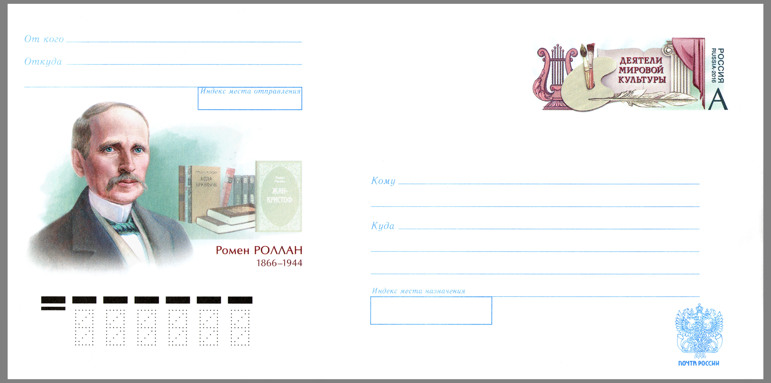 Figures of the World Culture (an ongoing series of postal stationery envelopes). The 150th birth anniversary of Romain Rolland (1866—1944), a French writer and art historian. The illustrated postal stationery envelope with commemorative stamp, Russia, 10 February 2016. PTC Marka Catalogue No. 278/кор-16. Envelope paper VBM (ВБМ) with watermarks “ПОЧТА РОССИИ”. Offset printing. Size of the envelope: 110×220 mm. Print run: 1,000,000. The non-denominated stamp of the ongoing series with symbols of arts (“Letter A”, for domestic letters, weight 20 g or less). The illustration: the portrait of Romain Rolland; Russian translations of books by Romain Rolland.